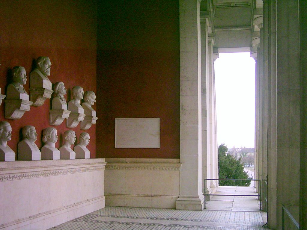 Northern wing of Ruhmeshalle ("Hall of fame"), München, Germany. Picture taken by myself: Dominik Hundhammer, München, 27 March 2006.